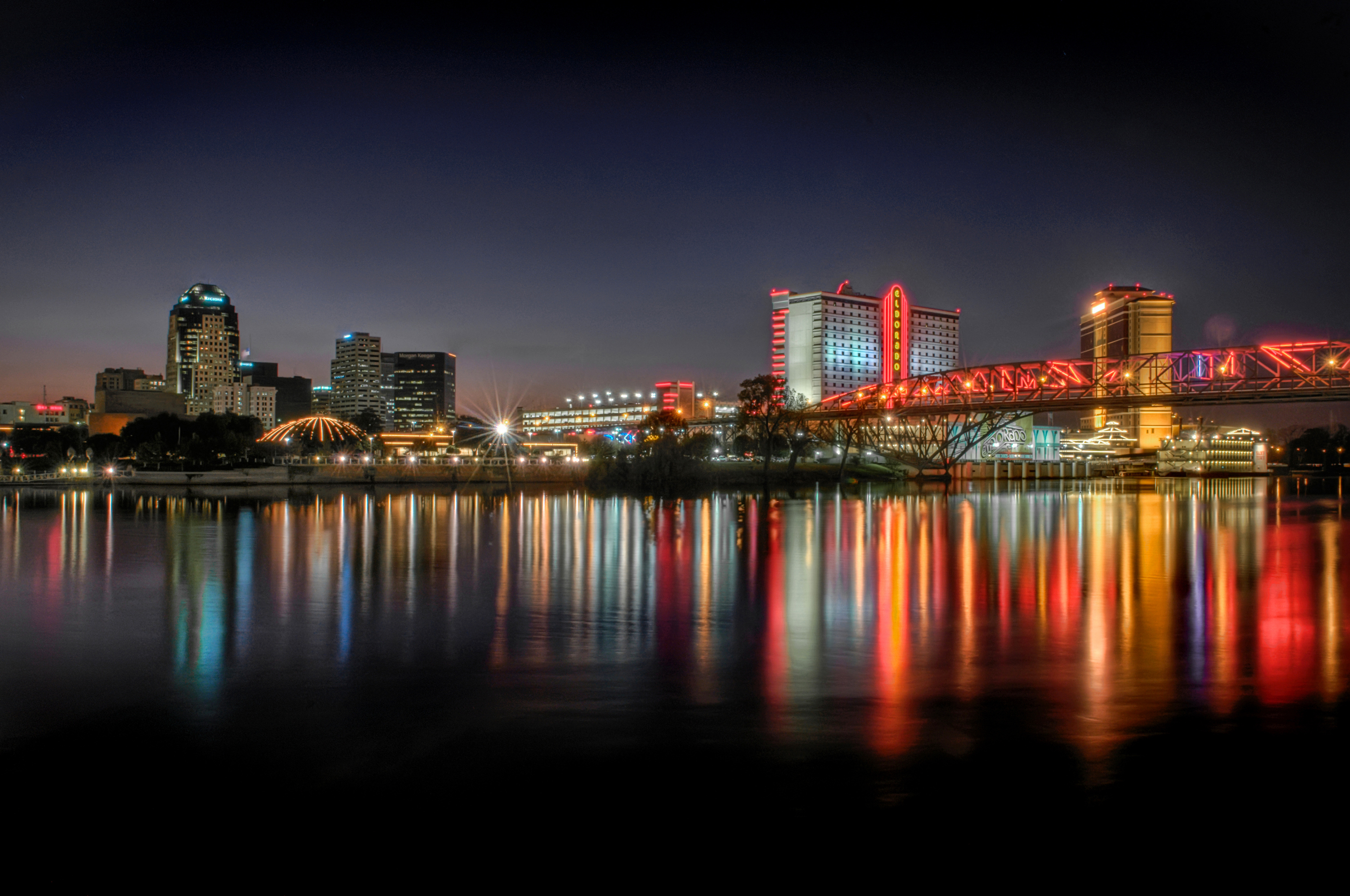 Downtown Shreveport, LA as seen from the Bossier City bank of the Red River. The neon-adorned bridge that you see here is the Long-Allen Bridge (named for famed statesman Huey P. Long). The bridge is also called "Texas Street Bridge" or simply the "Neon Bridge."